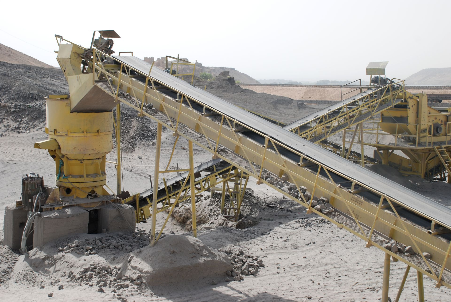 Zalabiyeh ruins background, near Halabiyeh, Syria, basalt gravel